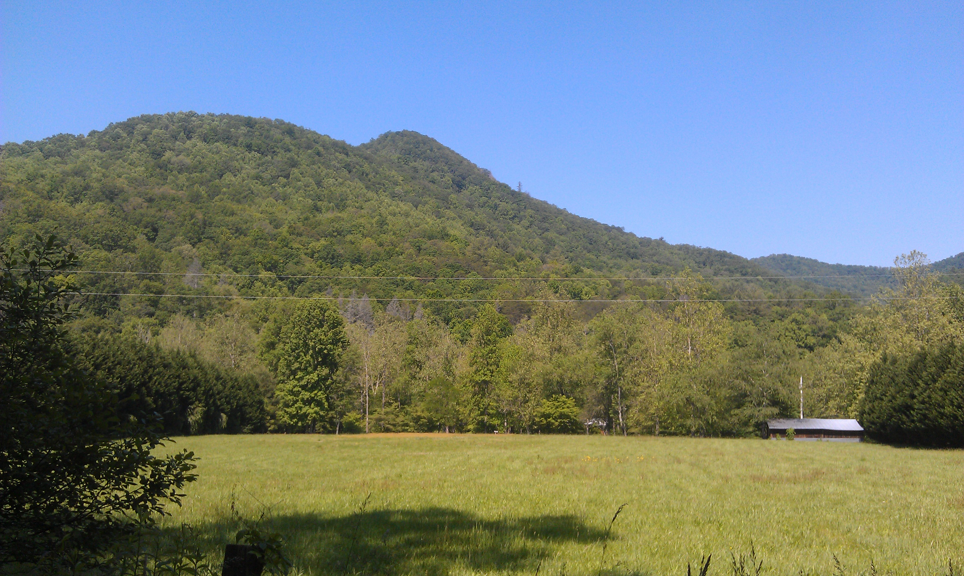 View of Tate City, Georgia, located in Towns County, of a Mountain range West of the city.